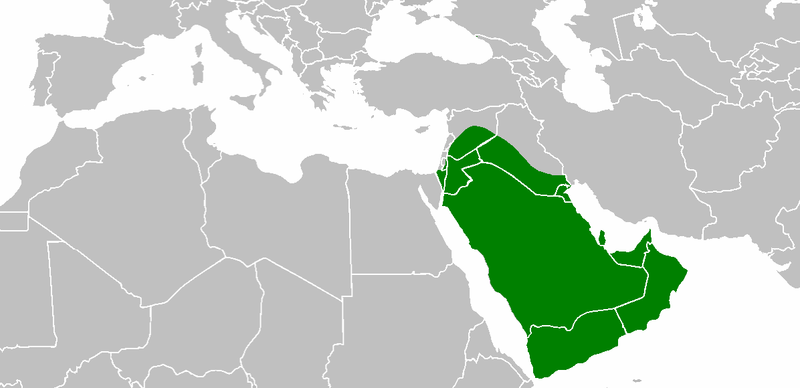 Islamic Empire during the reign of Caliph Abu Bakr.